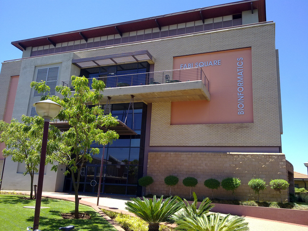 Forestry and Agricultural Biotechnology Institute, University of Pretoria